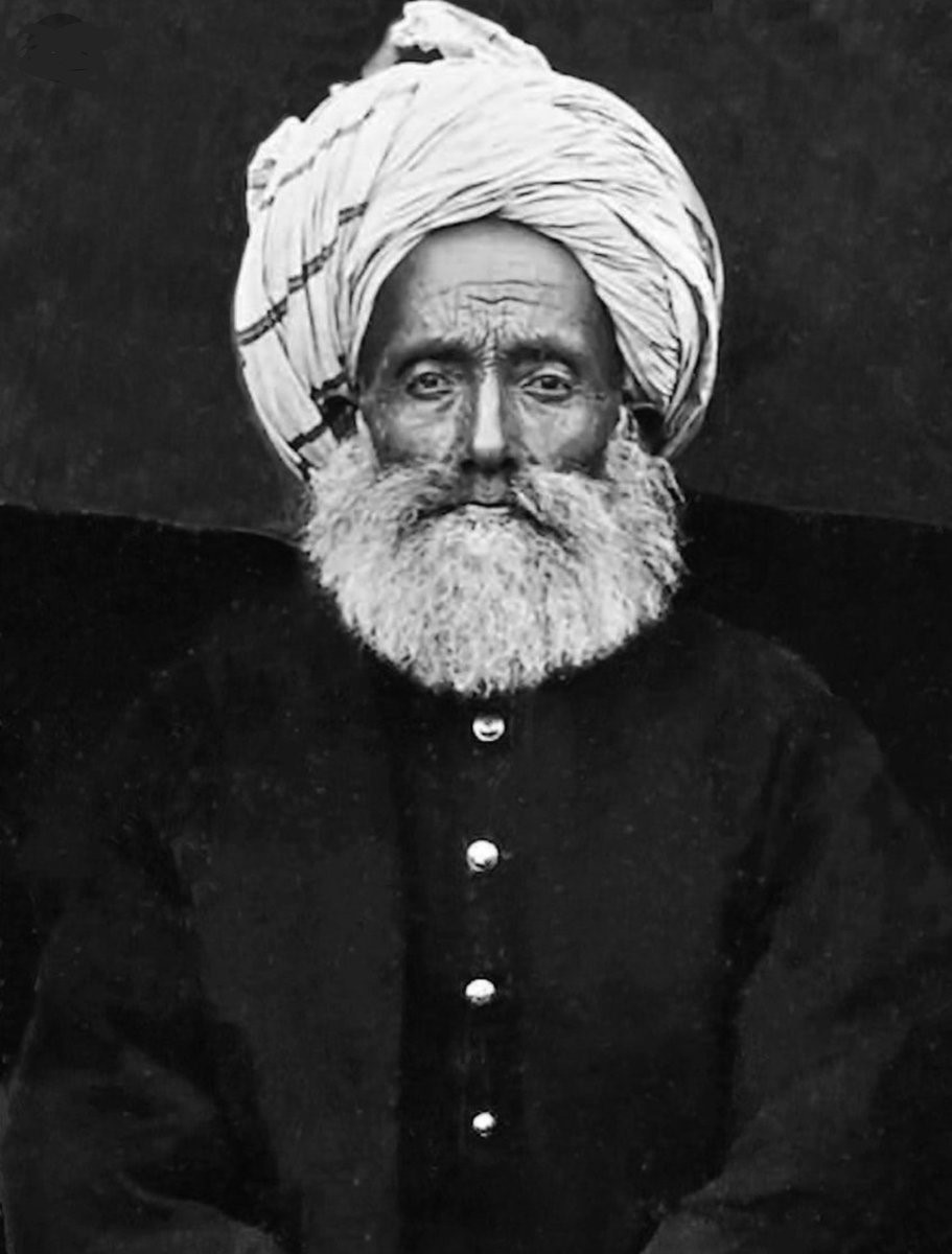 Sayyid Abdul Latif (1853-14. July 1903). One of the first Martyrs of the Ahmadiyya movement.